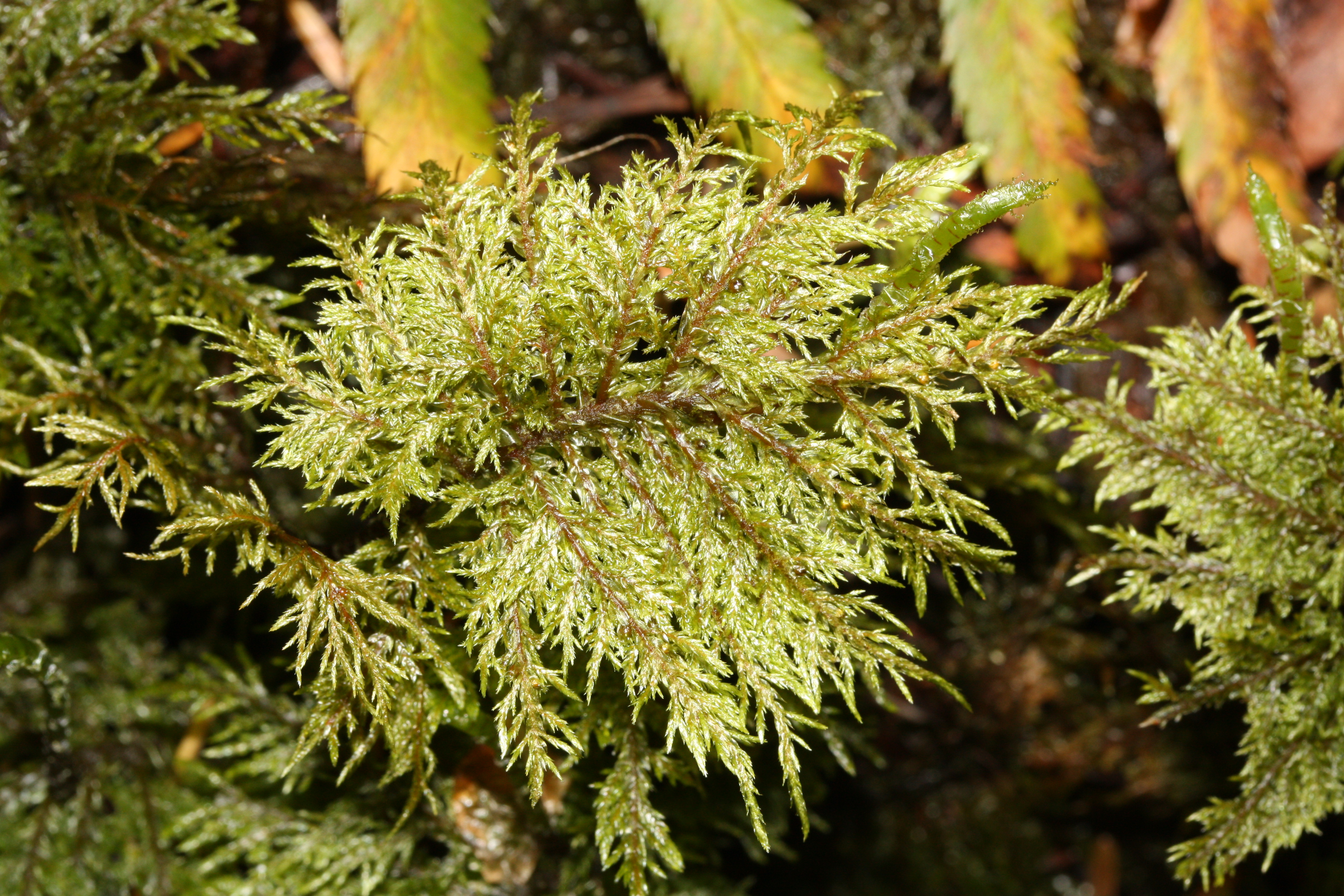 Splendid Feather Moss, Step Moss, Stair Step Moss